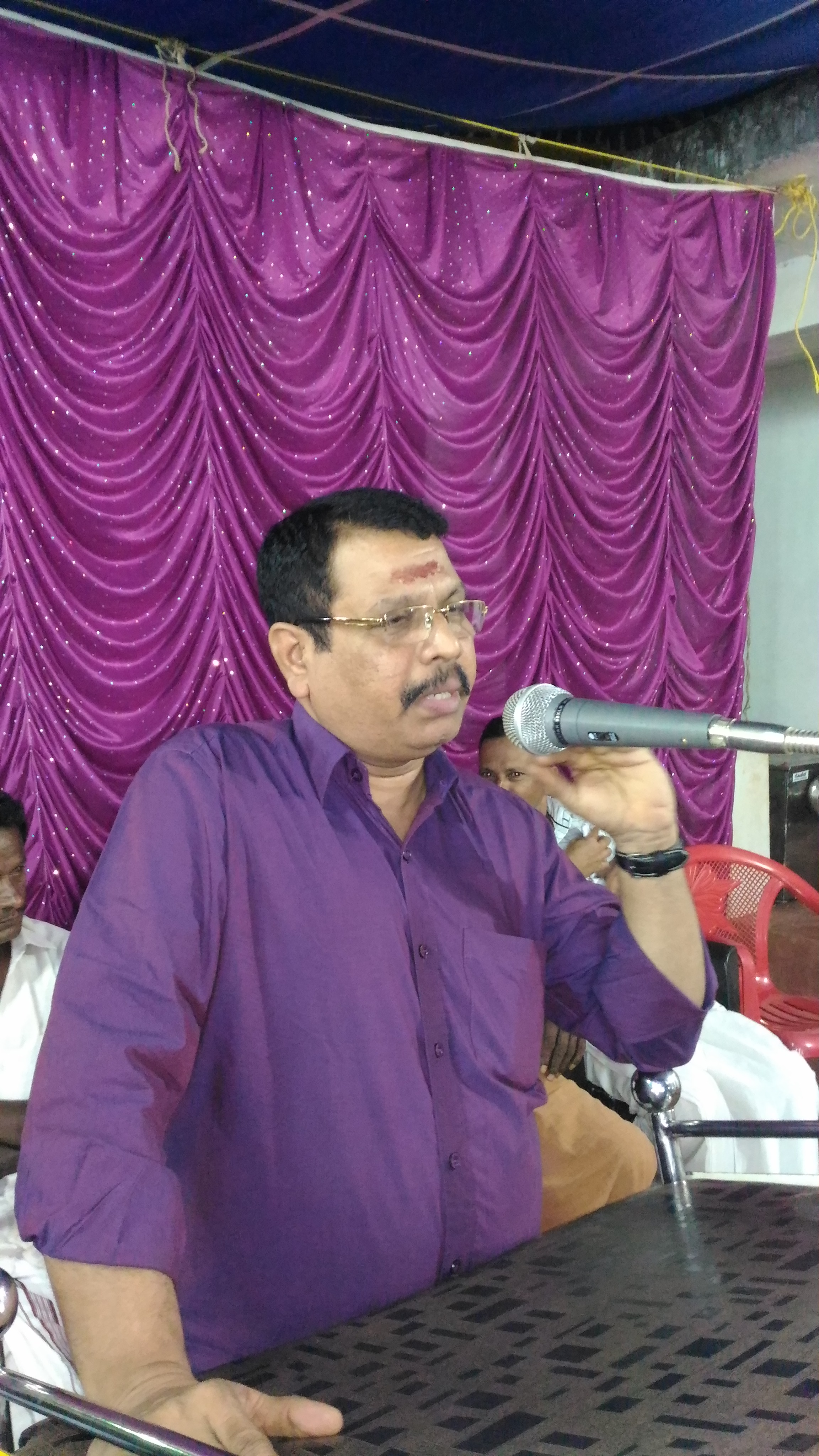 A Karnatic musician